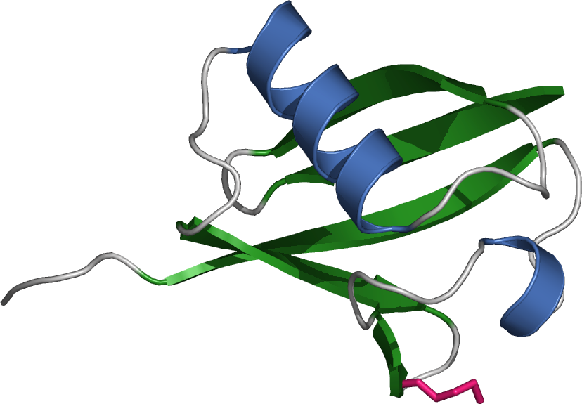 Original description - Cartoon representation of ubiquitin protein, highlighting the secondary structure. α-helices are coloured in blue and the β-sheet in green. The normal attachment point for a further ubiquitin molecule in polyubiquitin chain formation, lysine 48, is shown in pink. Image was created using PyMOL